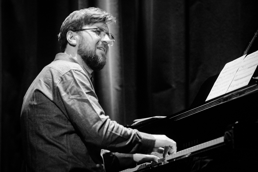 Krzysztof Dys with Adam Bałdych Quartet at Cosmopolite. The concert took place on 02. February 2018 in Oslo. Lineup: Adam Baldych (violin), Krzysztof Dys (piano), Michał Barański (double bass) and Dawid Fortuna (percussion).